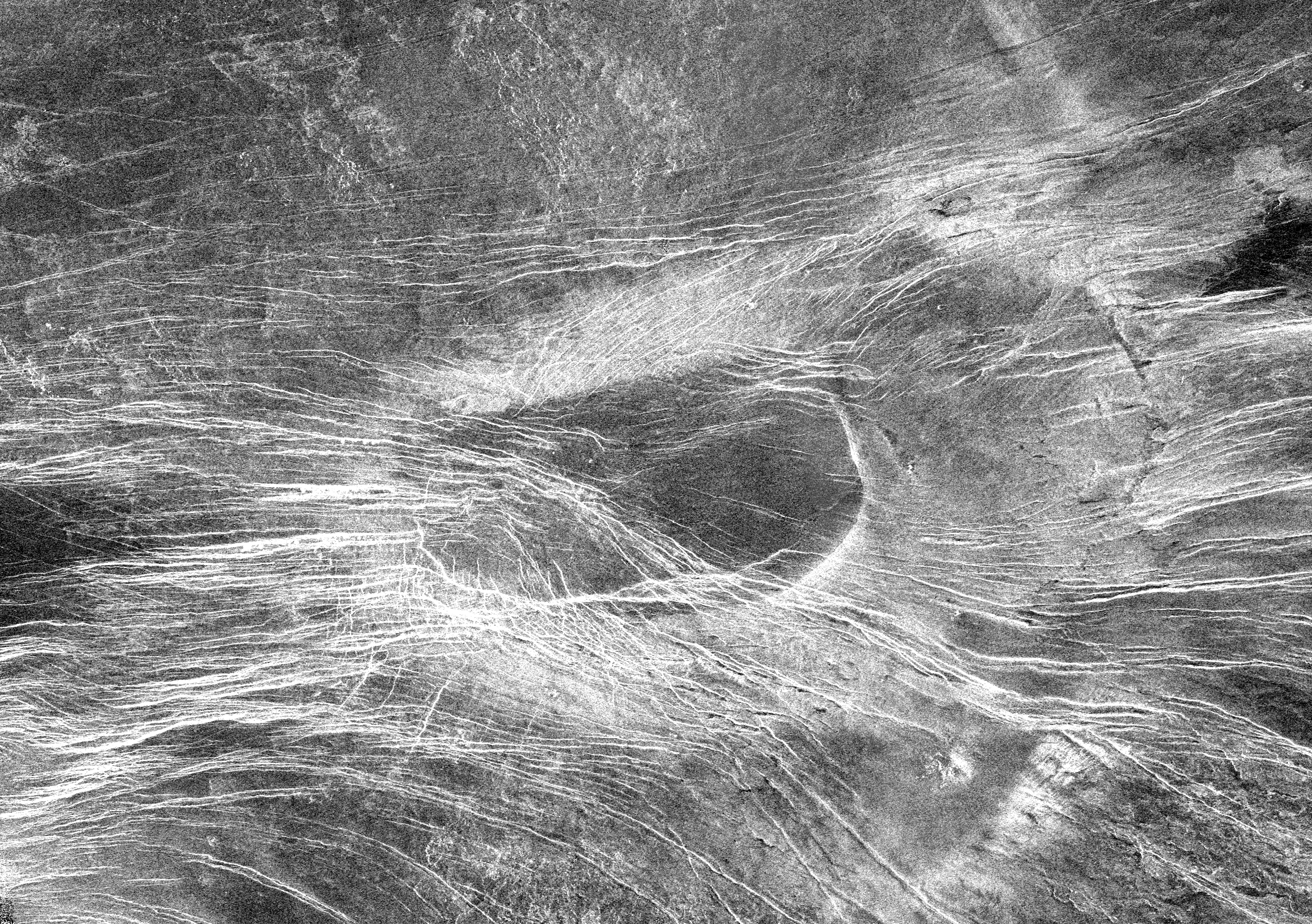 Vovchok Patera on Venus. Magellan radar image (in simple cylindrical projection). Width is 350 km, resolution — 700 pix/deg (0.15087 km/pix). With adjusted brightness levels. Map of the region.